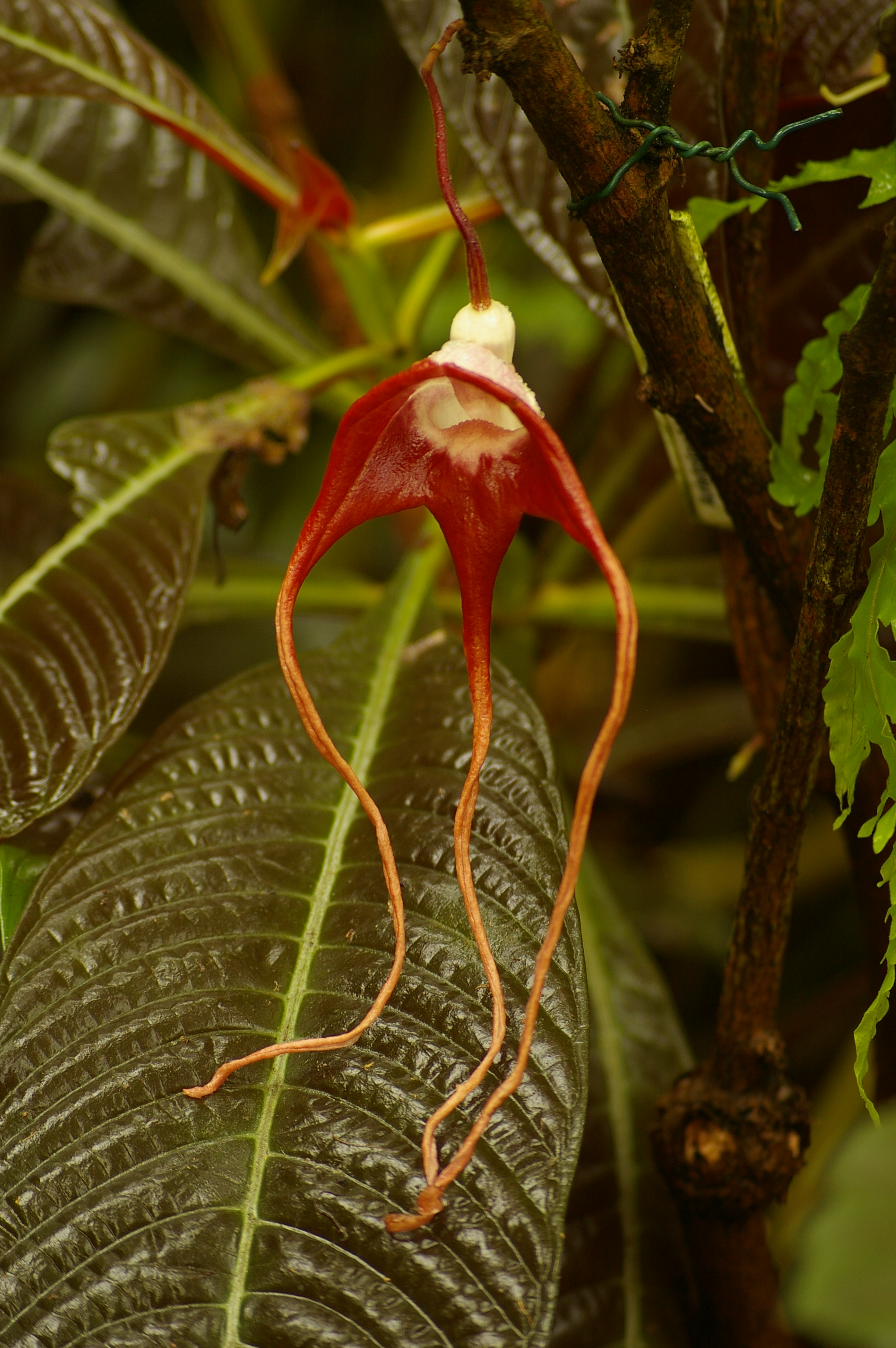 This photograph was taken on 15th December during an event in Fata Morgana Greenhouse, supported by Czech 'Mediagrant'. Aristolochia tricaudata.